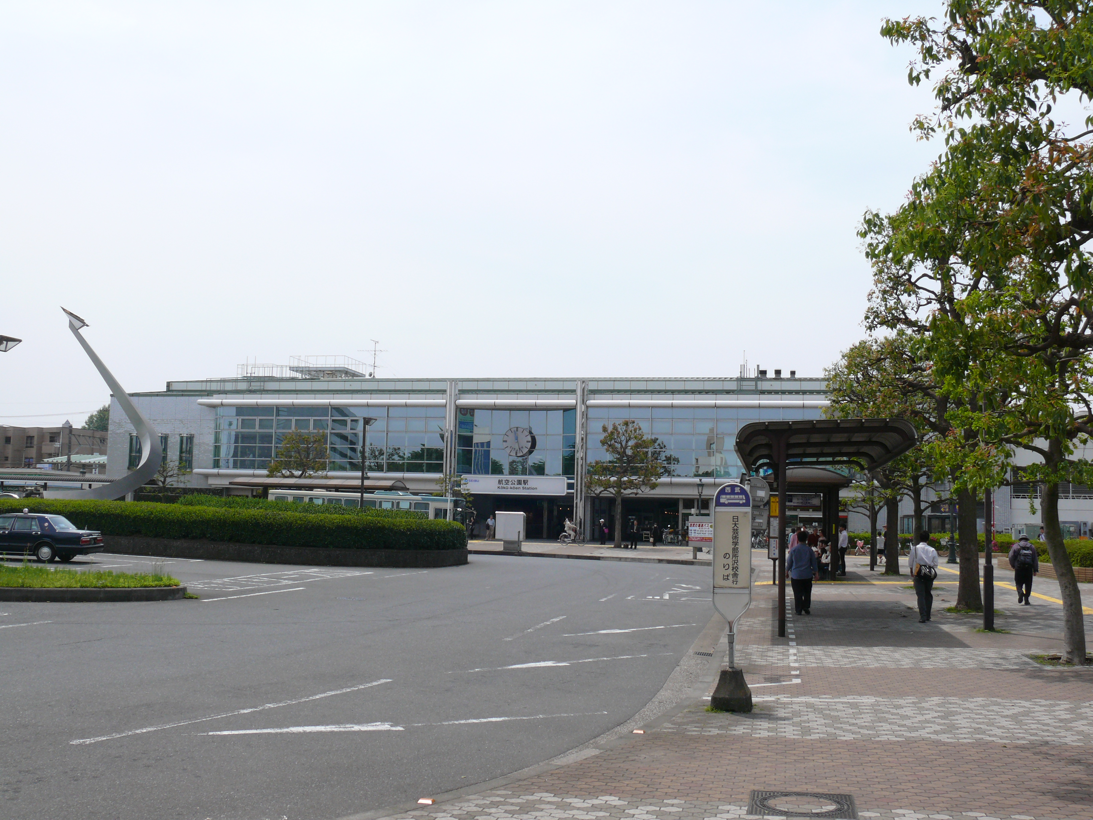 Kokukoen (Kōkū-kōen) Station East Entrance on the Seibu Shinjuku Line, Tokorozawa, Saitama, Japan.